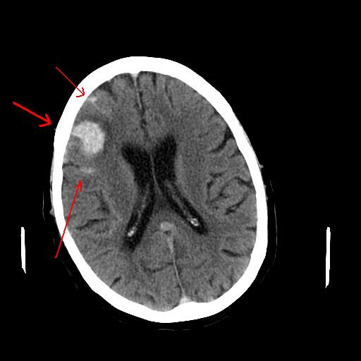 CT-scan of the brain with intracerebral heamatoma